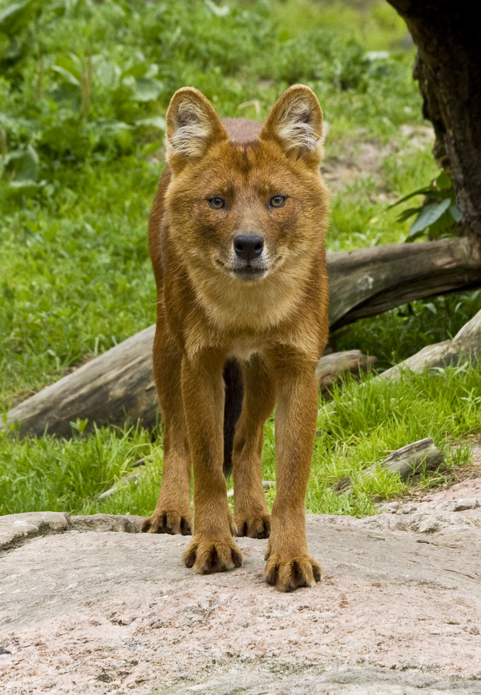 A dhole (Cuon alpinus alpinus). Kolmårdens djurpark, Sweden.